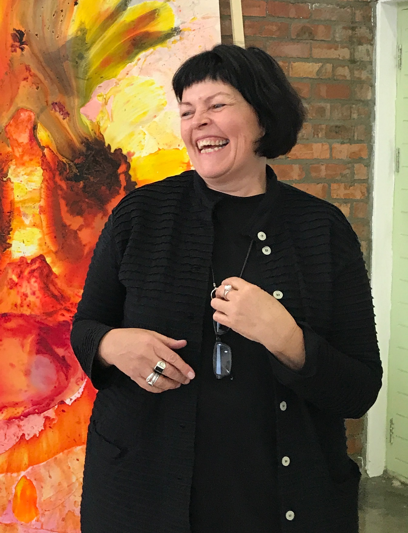 Artist Jo Ractliffe in the studio of Penny Siopsis at Open Studio/Open Form, The Maitland Institute, Cape Town.